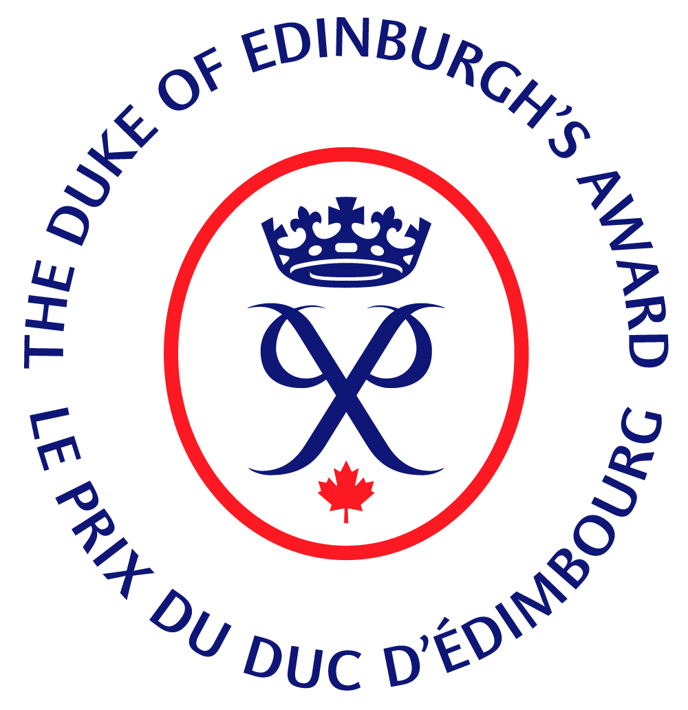 This is the official national logo for The Duke of Edinburgh's Award in Canada